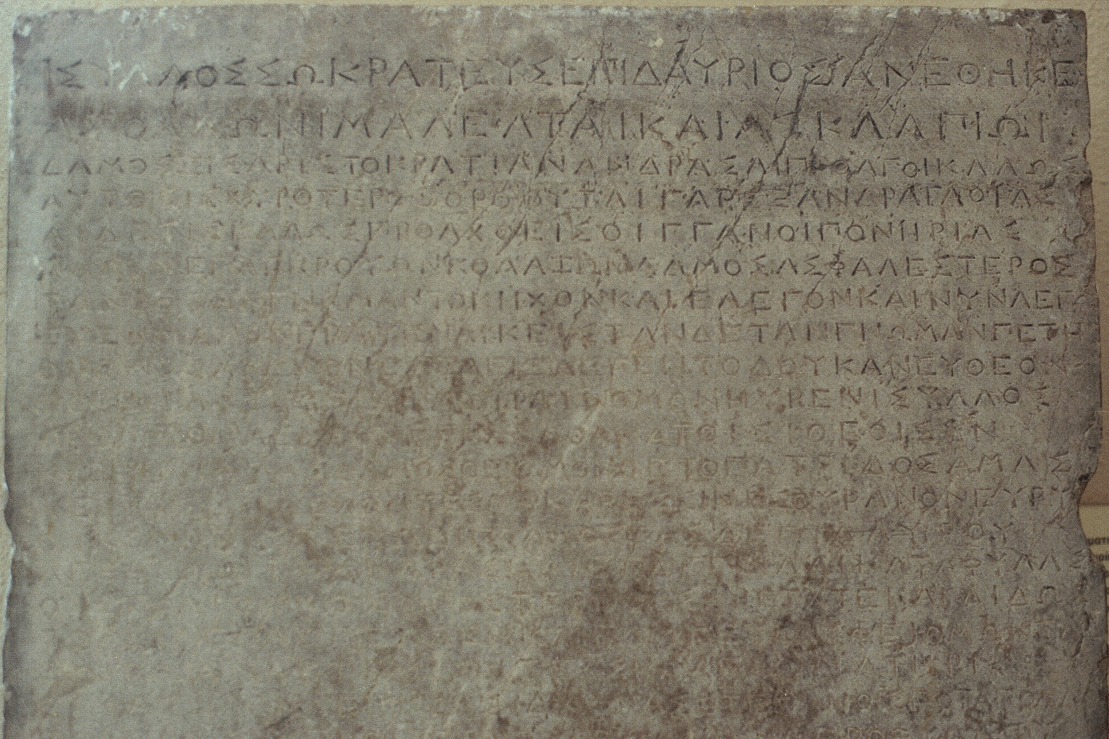 Ancient Greek inscription on marble plate from the Temple of Asclepius at Epidauros: Hymn to Apollo and Asclepius by the poet Isyllus (Isyllos, Ἴσυλλος) of Epidaurus, ca 280 BC. Archaeological Museum of Epidaurus, inscription no 21.